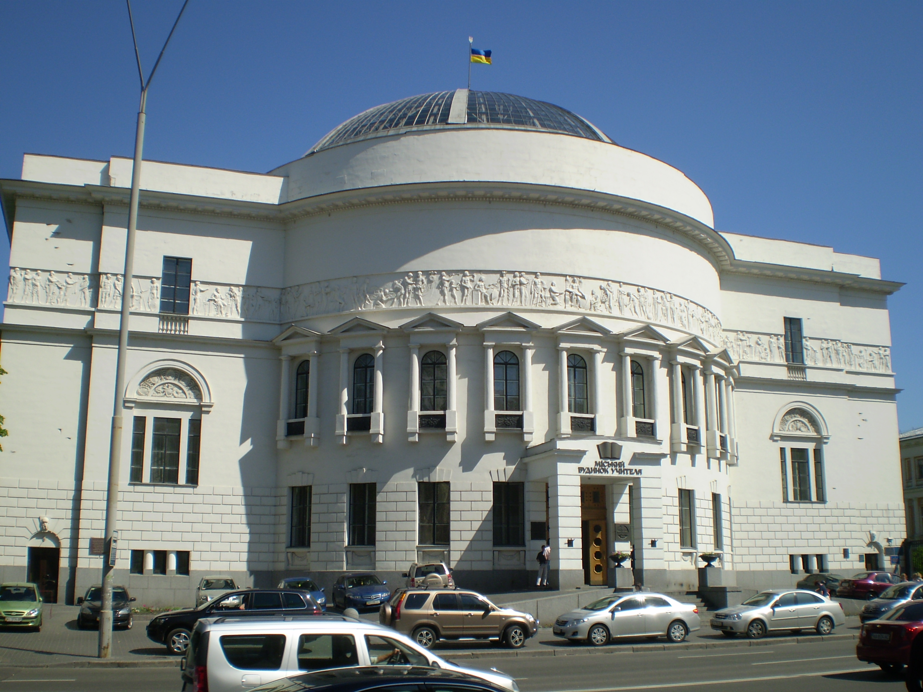 Kyiv. House of teachers